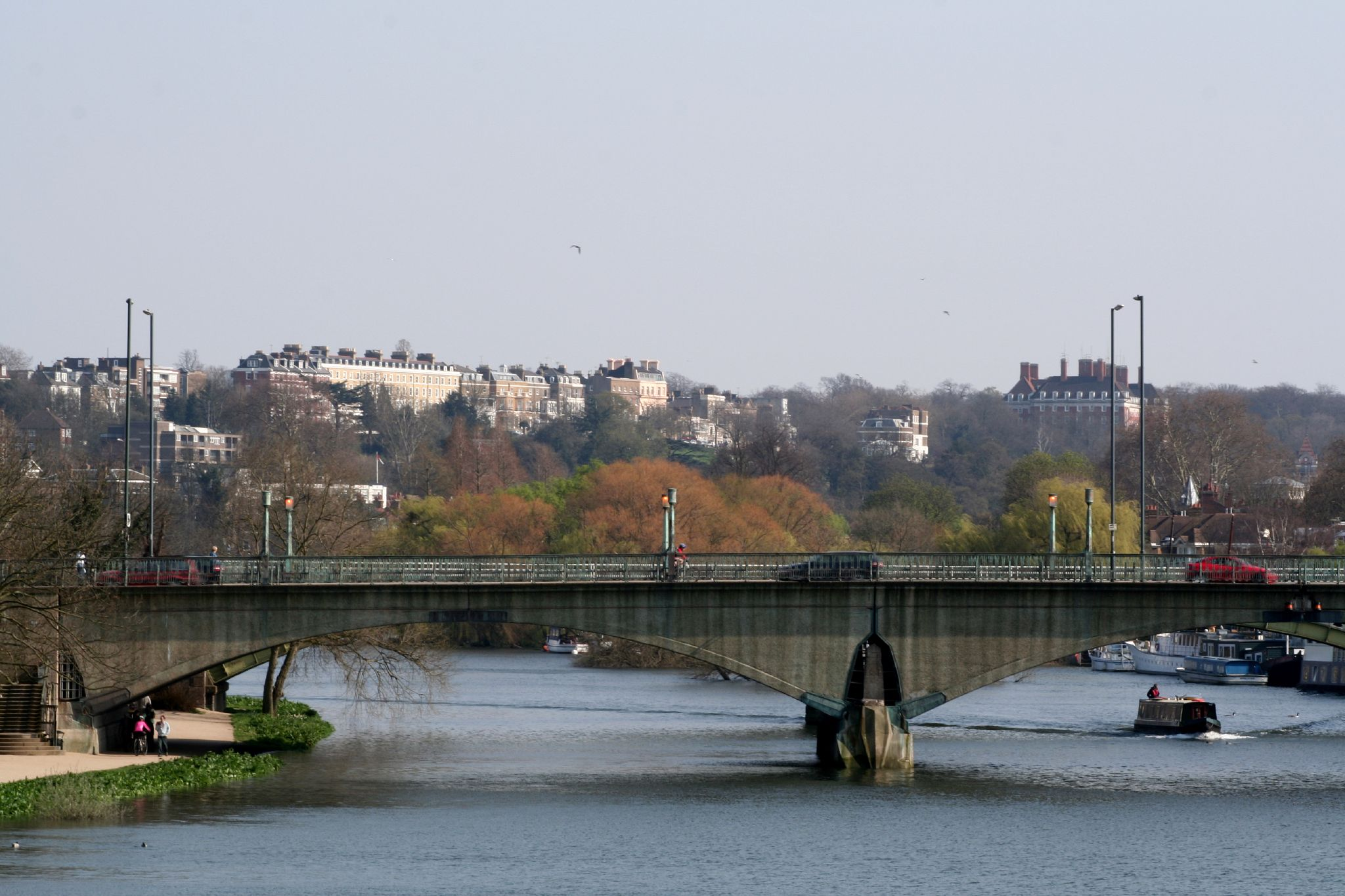 A view of richmond-upon-thames, West London, UK, Twickenham Bridge and Thames